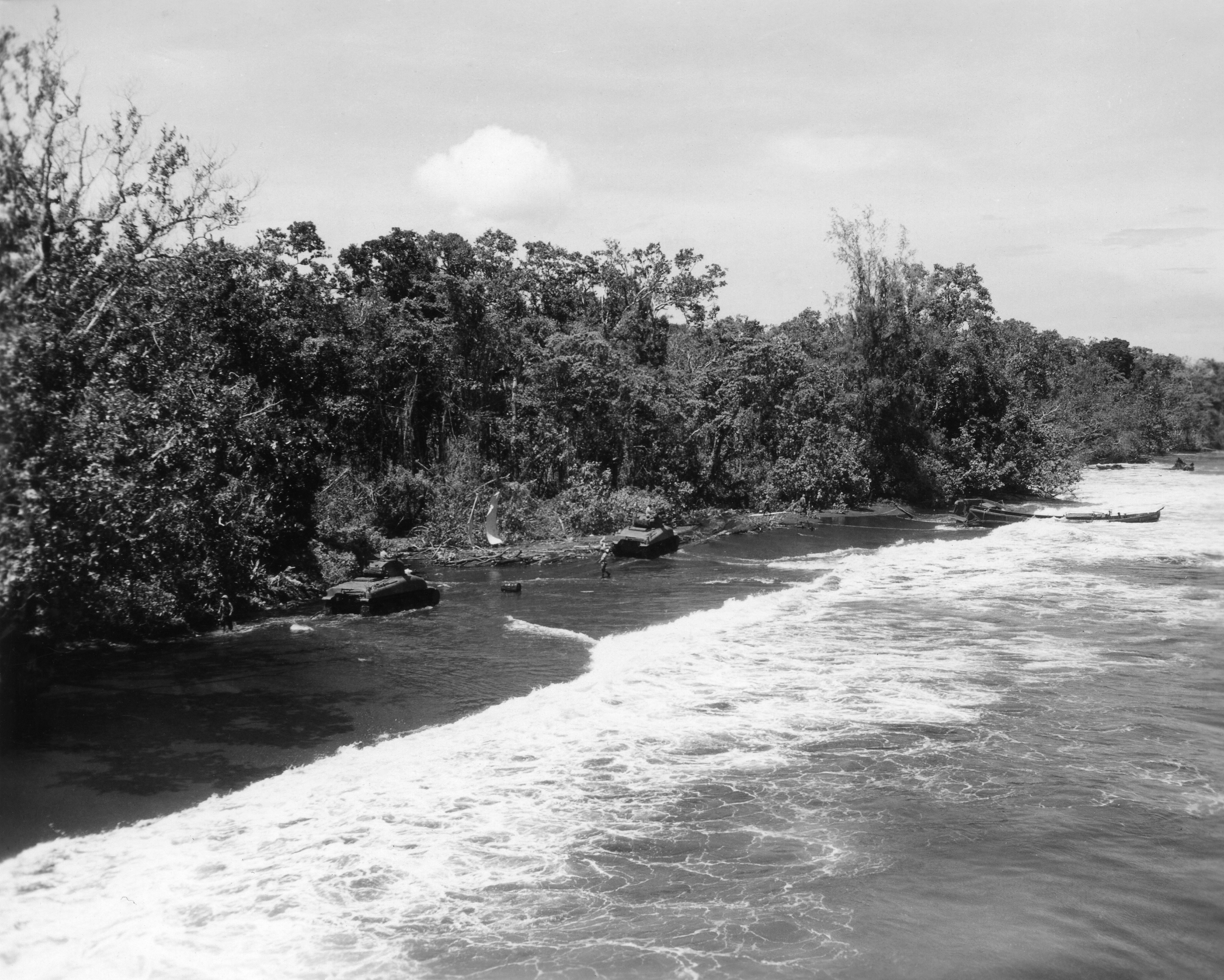 M4A1 Sherman tanks ashore during the Battle of Cape Gloucester; picture taken from a LST.